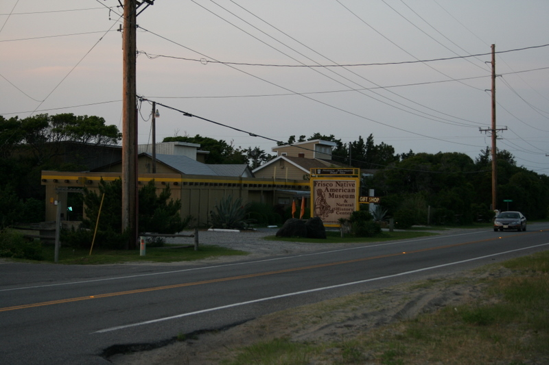 Vbofficial 01:41, 12 June 2007 (UTC), Native American Museum, Frisco, NC